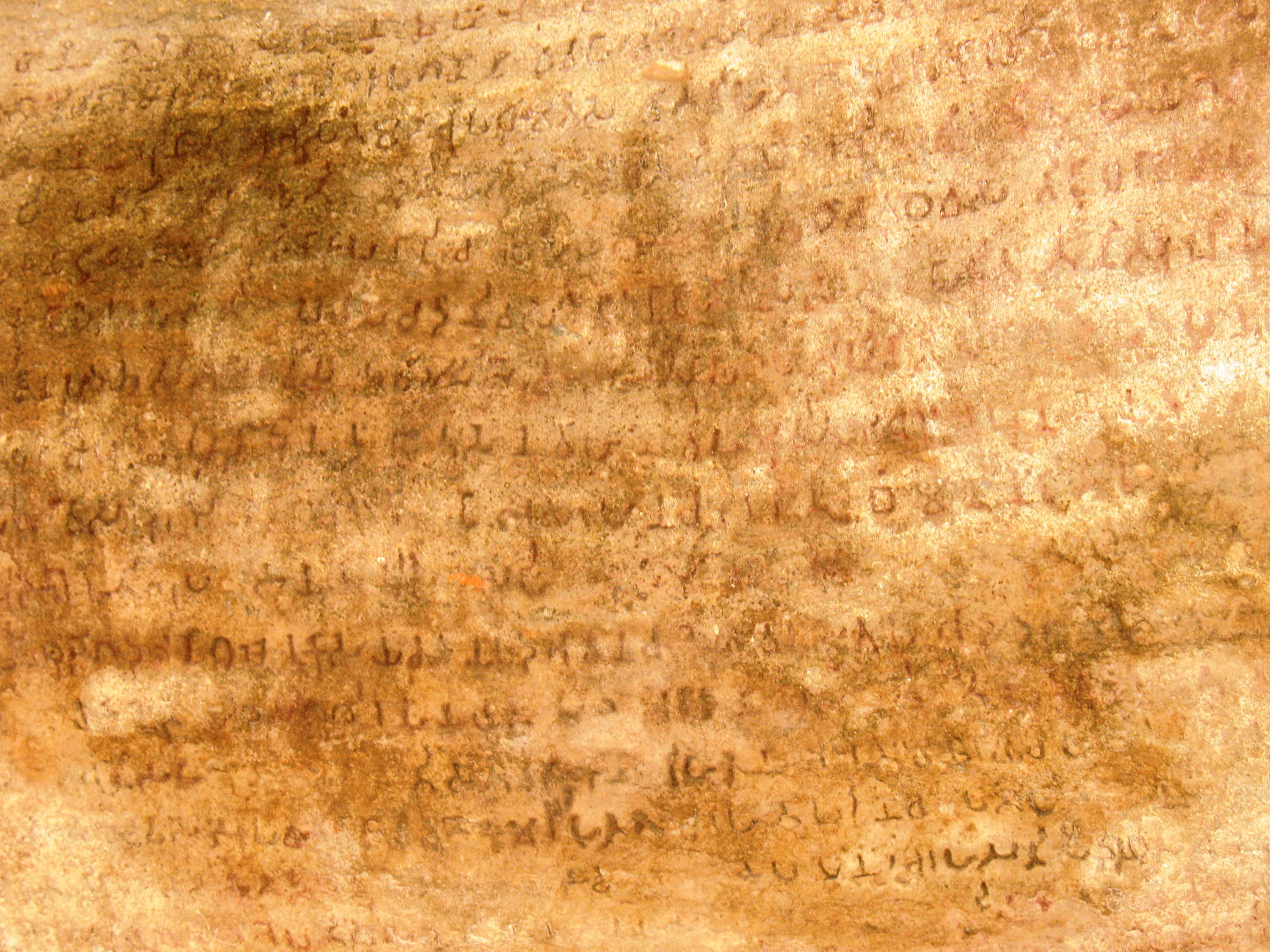 hatigumfa rock inscription